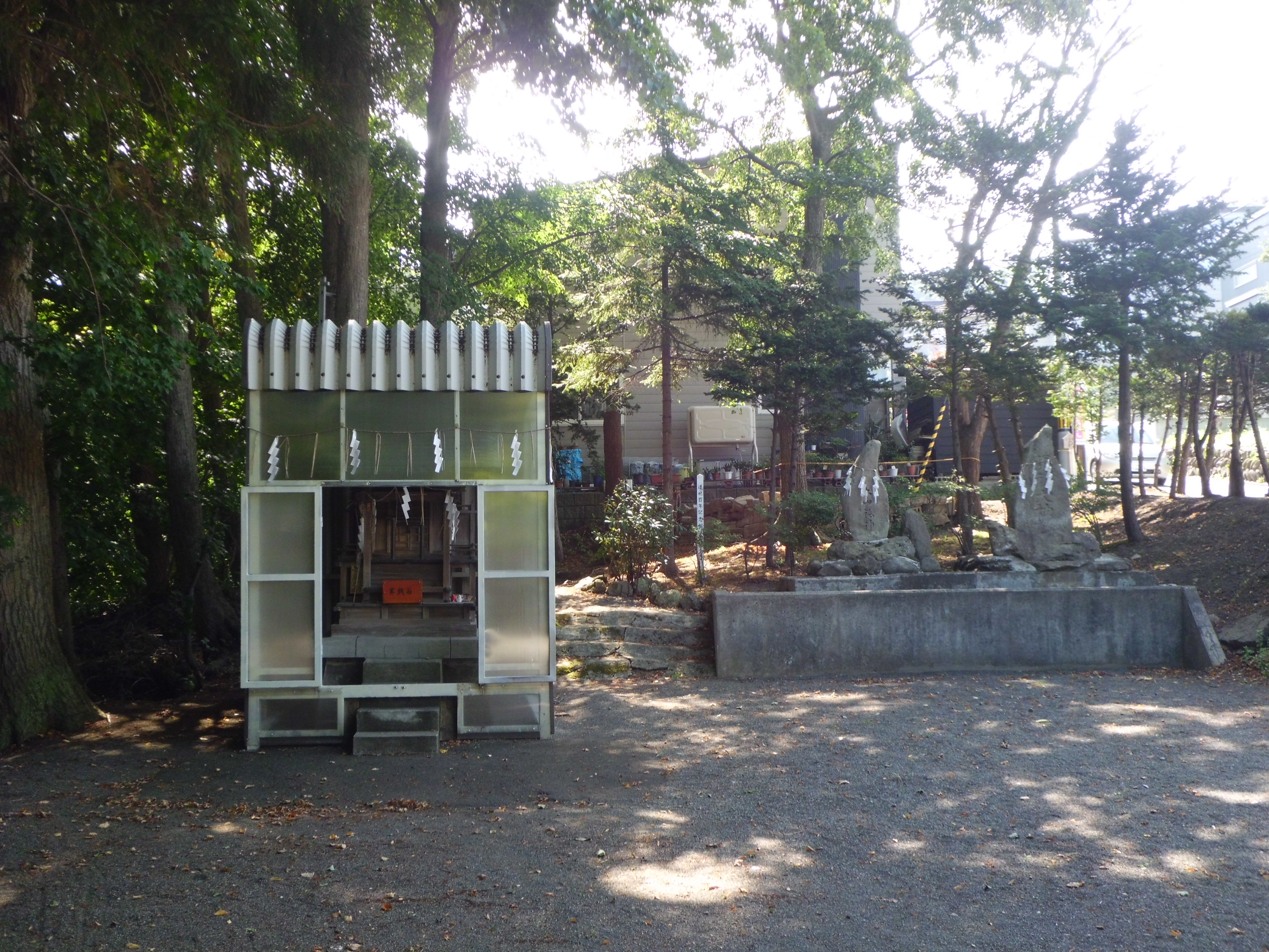 Maruyama Nishimachi Shrine